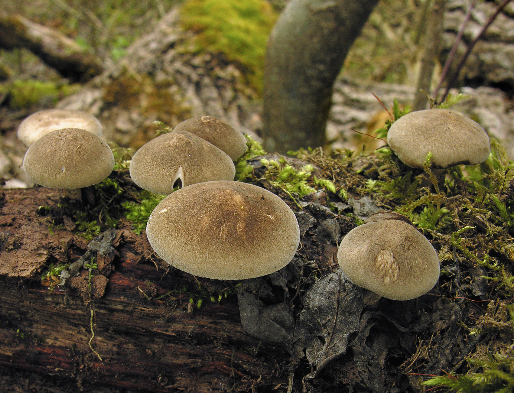 Fringed Polypore (Polyporus ciliatus)